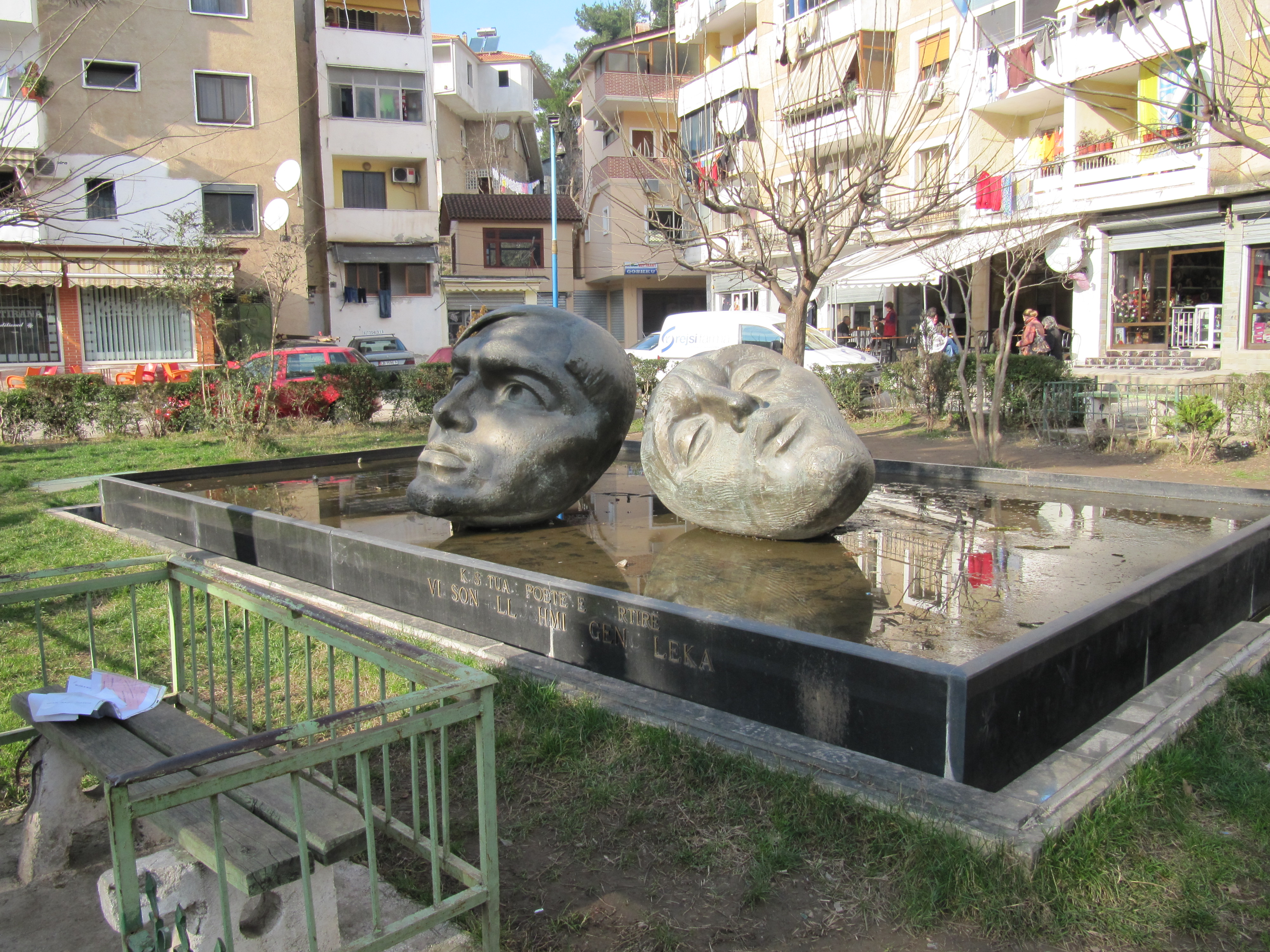 A memorial for two Albania poets, Vilson Blloshmi and Genc Leka killed by the communist government under Enver Hoxha. The memorial is located in Librazhd, Albania